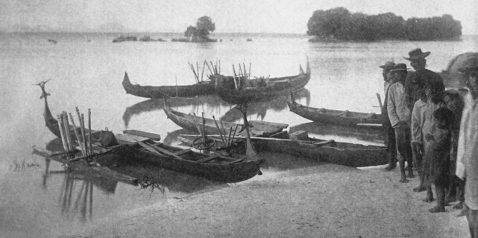 South Sea cruise 1899-1900, Caroline Chain, Moen Island, Truk Lagoon, canoes. Note that this image is cropped and tones rebalanced.